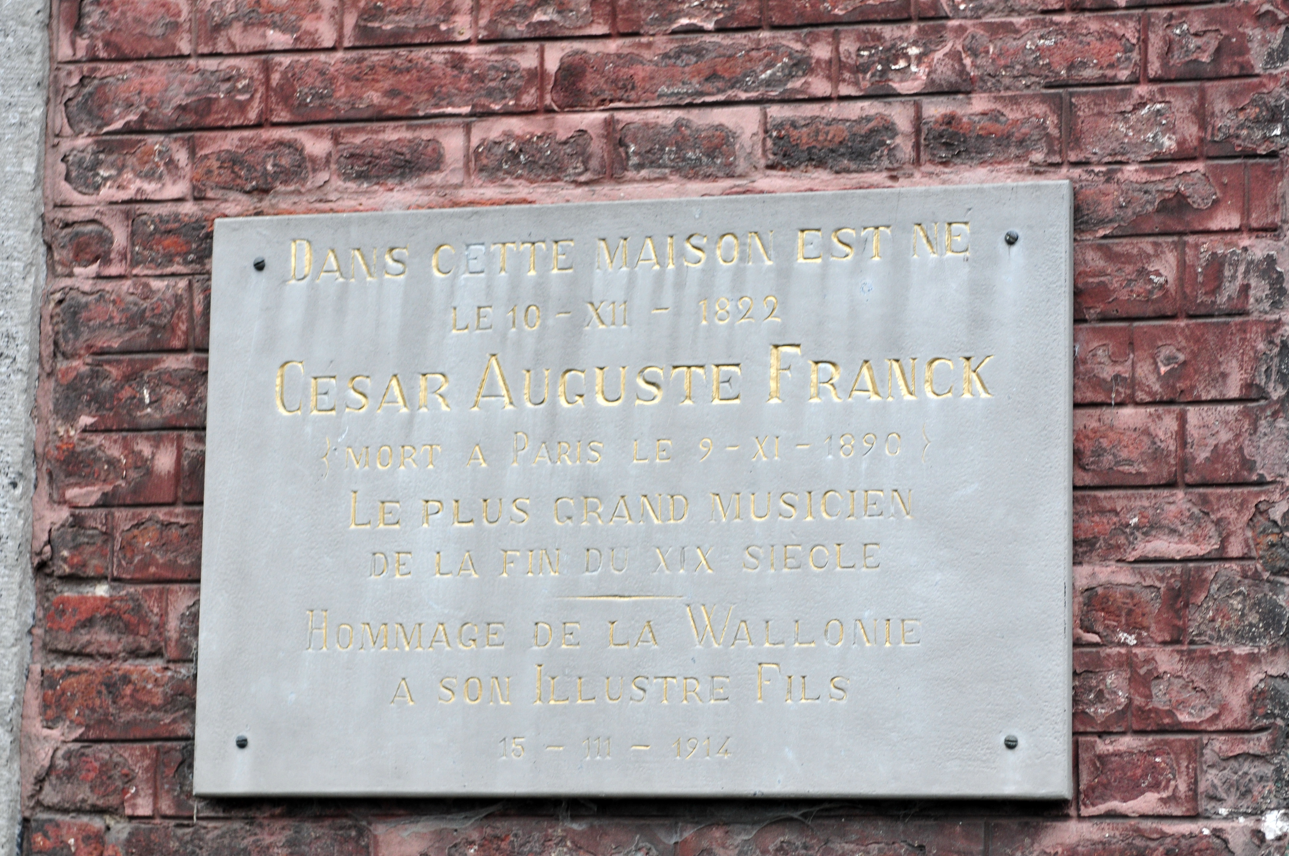 City of Liege. Plaque to commemorate the Composer Cesar Franck